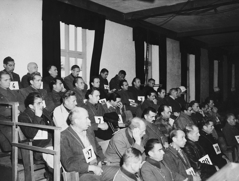 US Army Trials - Concentration Camp Dachau, View of the defendants in the Dachau trial wearing identifying number tags seated in the dock, Nov 15, 1945 - Dezember 13, 1945